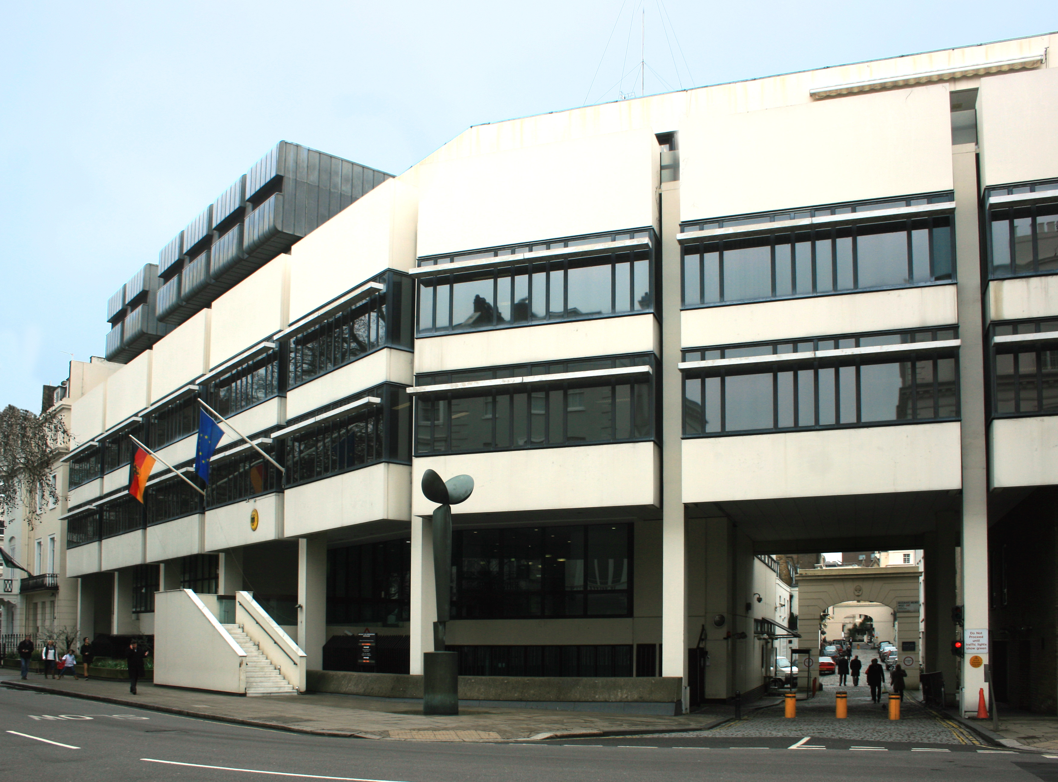 The new embassy was opened in 1978 and won a Westminster City Council award for architecture.